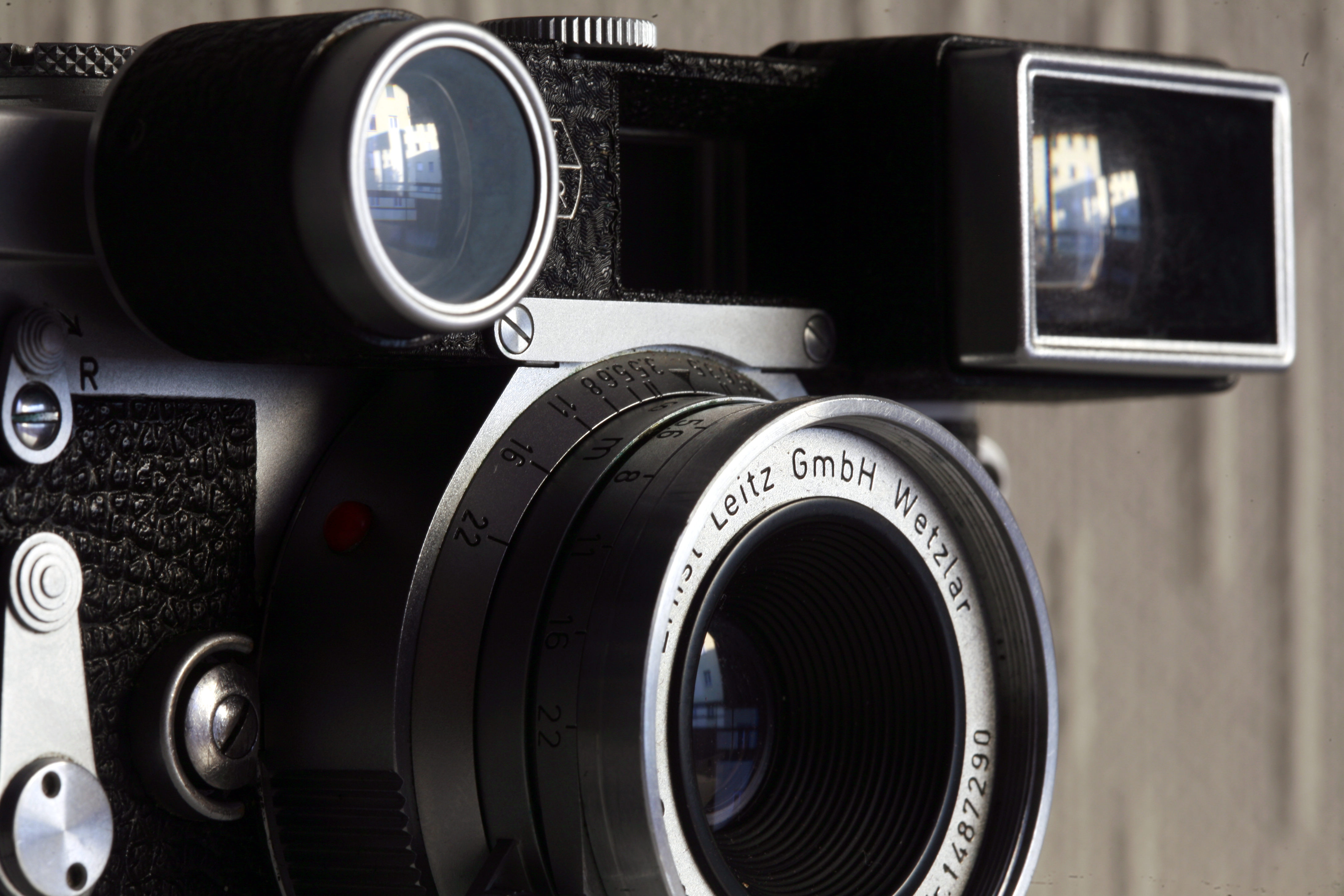 Leica M3